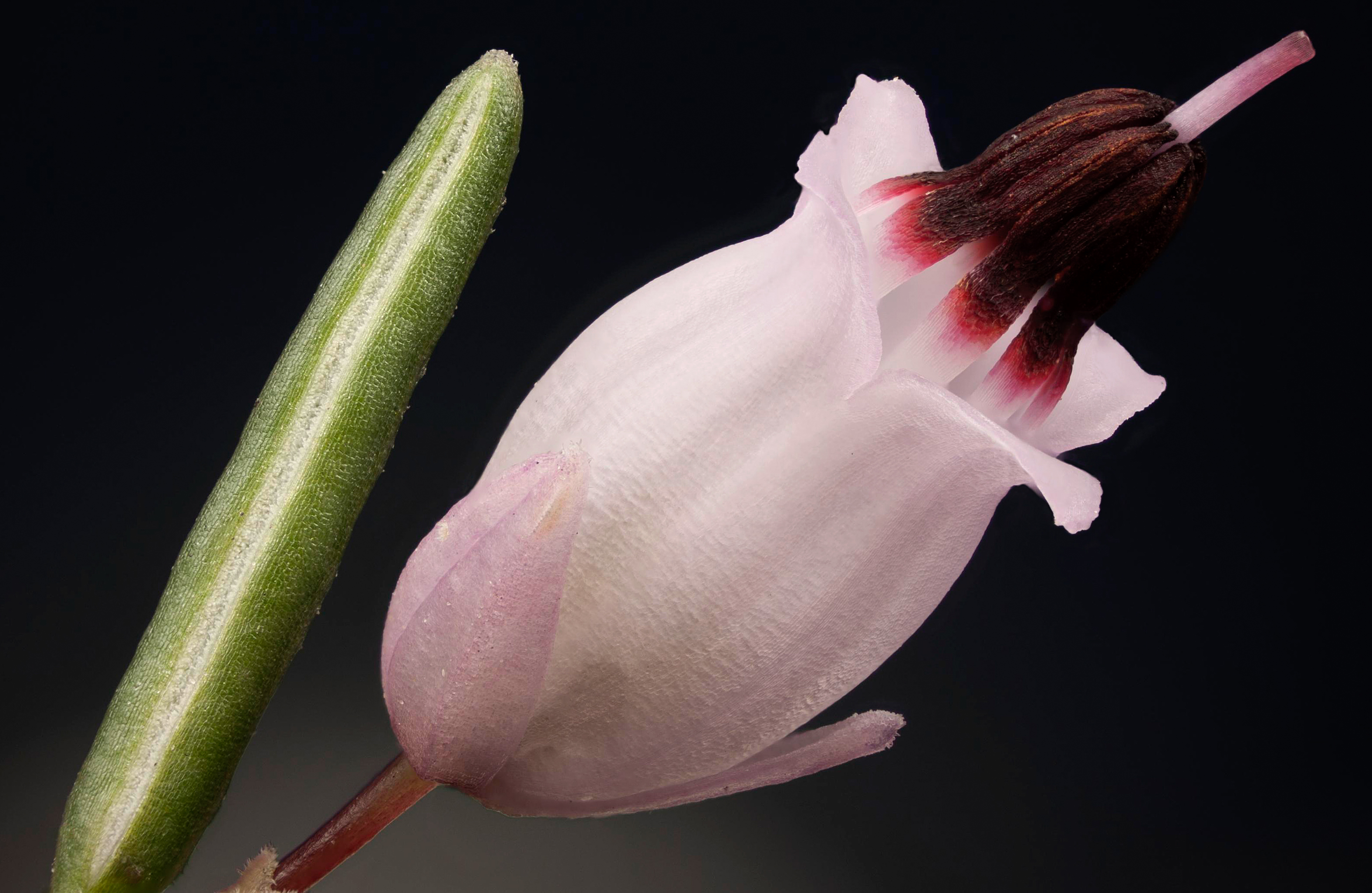 A close-up of the flower and leaf of Erica carnea, (Winter Flowering heather or Winter Heath).